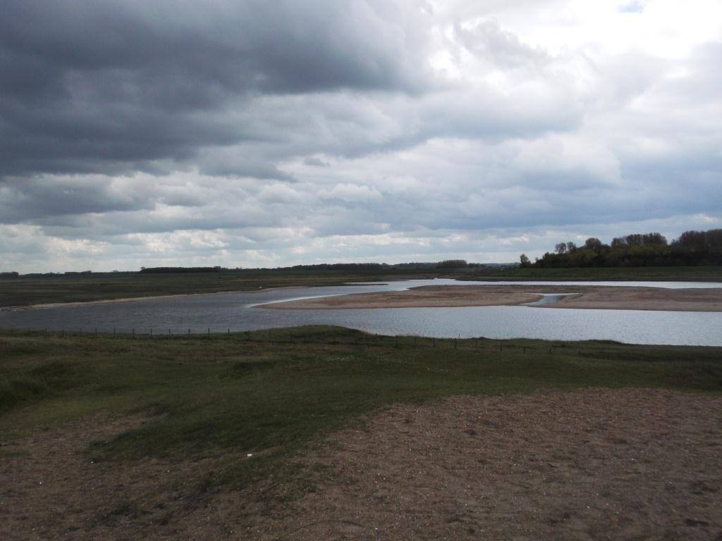 zwin view on wetland